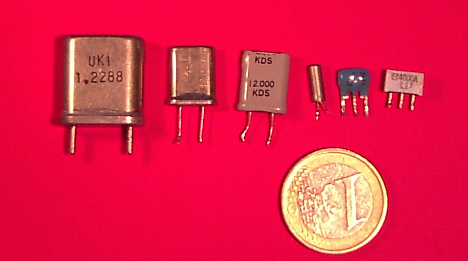 Various quartz crystal resonators used in electronic crystal oscilators